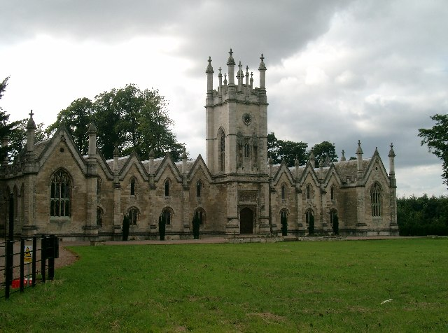 Aberford Almhouses. Aberford Almhouses built in 1844, only had 12 occupants at any one time. Has recently been converted into offices.